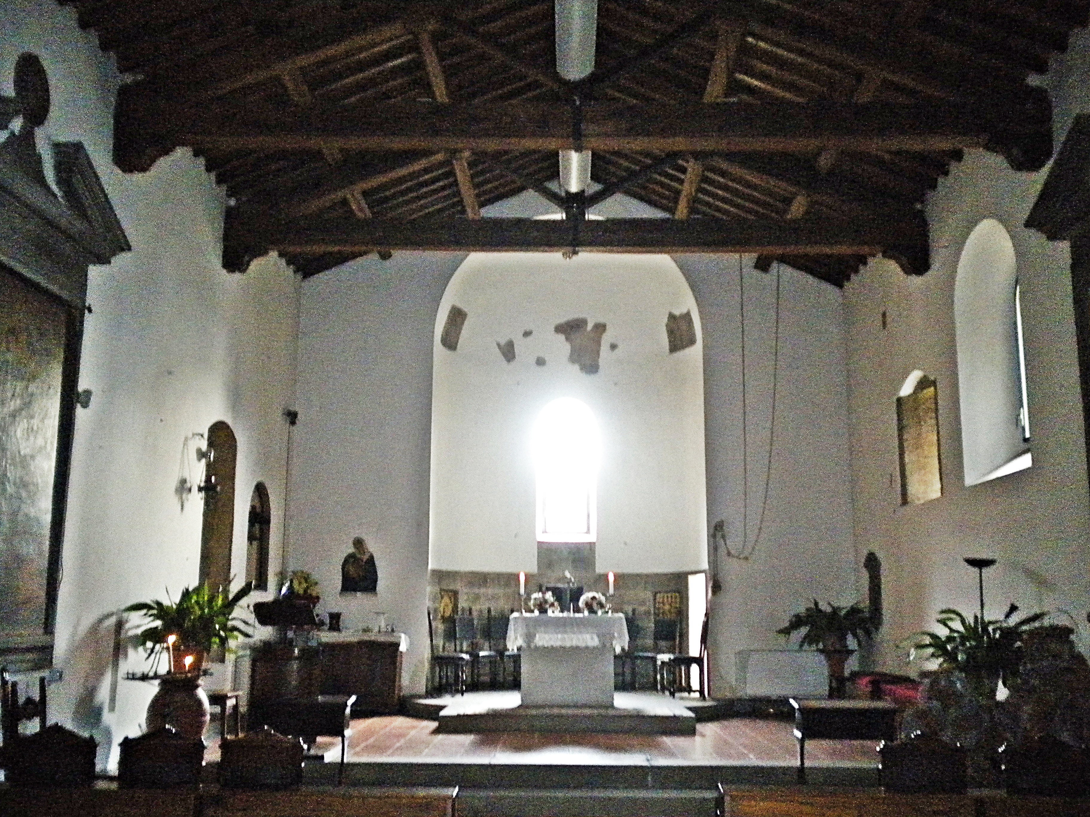 the nave